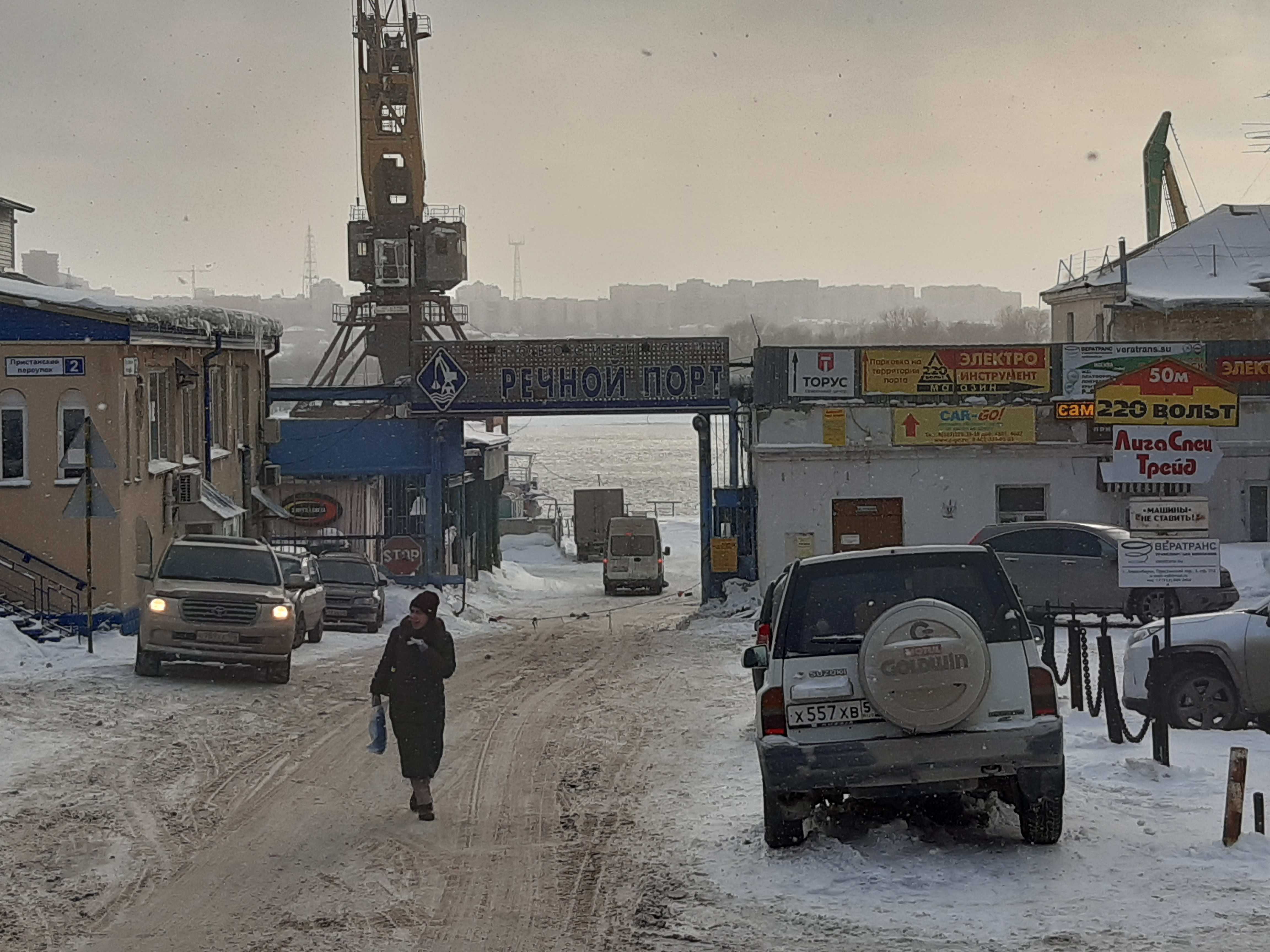 Novosibirsk River Port, Zheleznodorozhny District of the city.